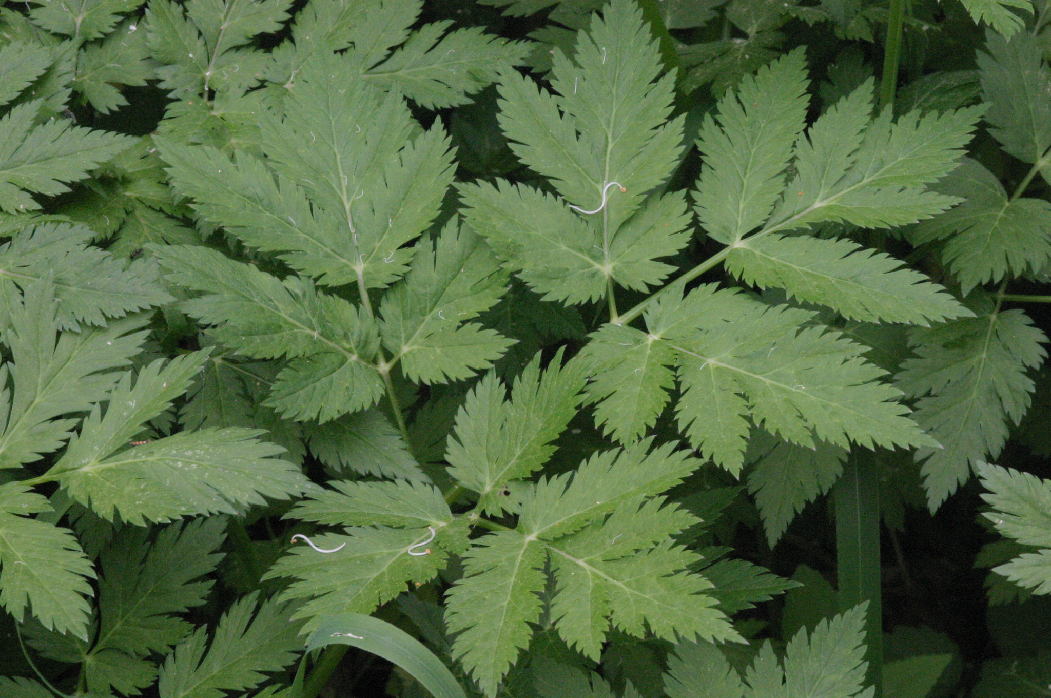 Chaerophyllum hirsutum